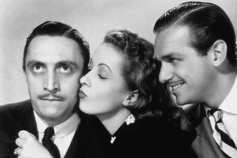 Left to right: Mischa Auer, Danielle Darrieux, and Douglas Fairbanks, Jr. in The Rage of Paris (1938) - cropped screenshot